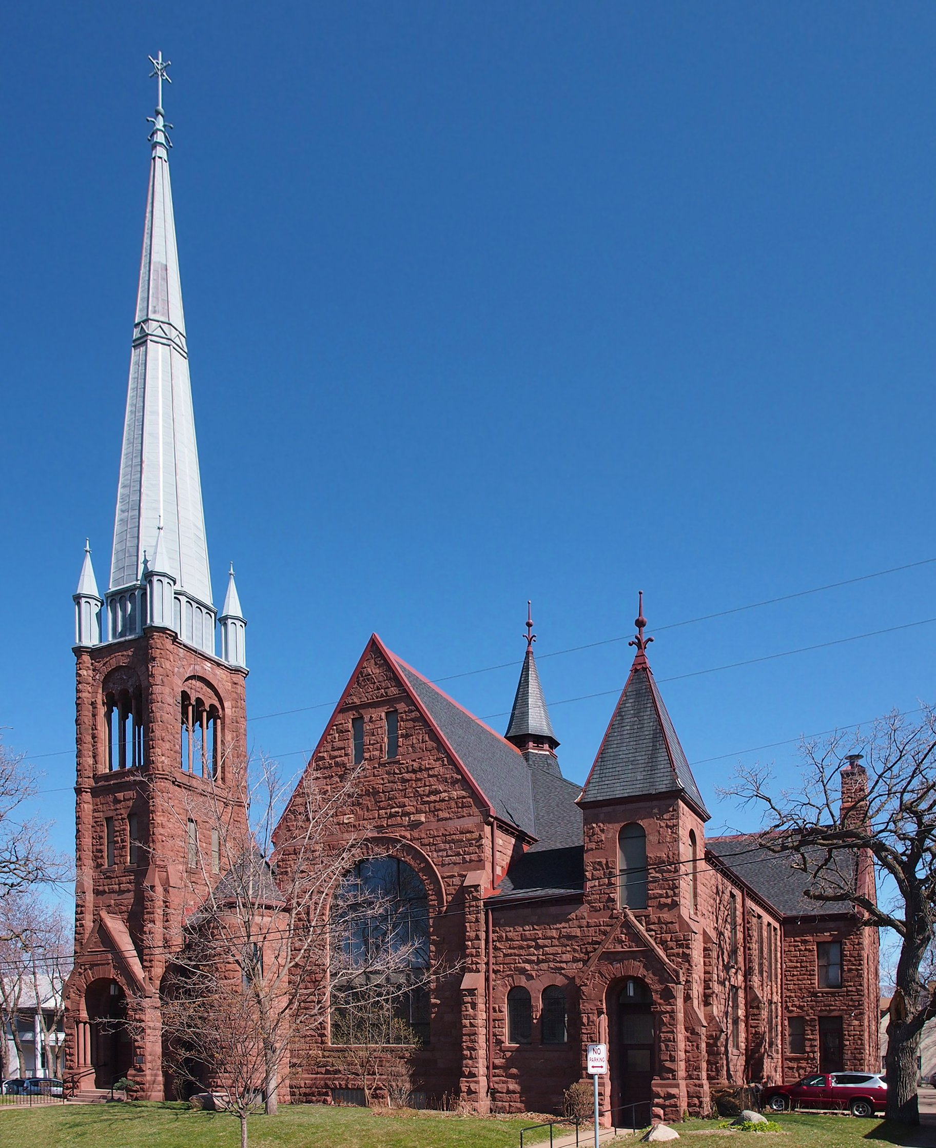 First Congregational Church, 500 8th Ave SE, Minneapolis, Minnesota, USA. Viewed from the south.